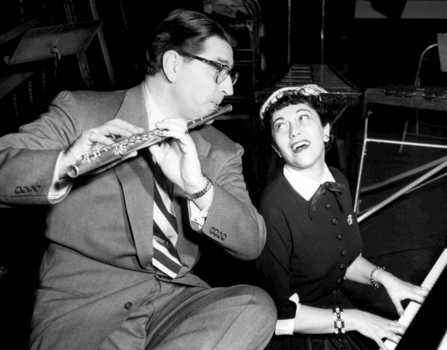 Photo of Meredith and Rini Willson from their weekday NBC radio program Ev'ry Day.